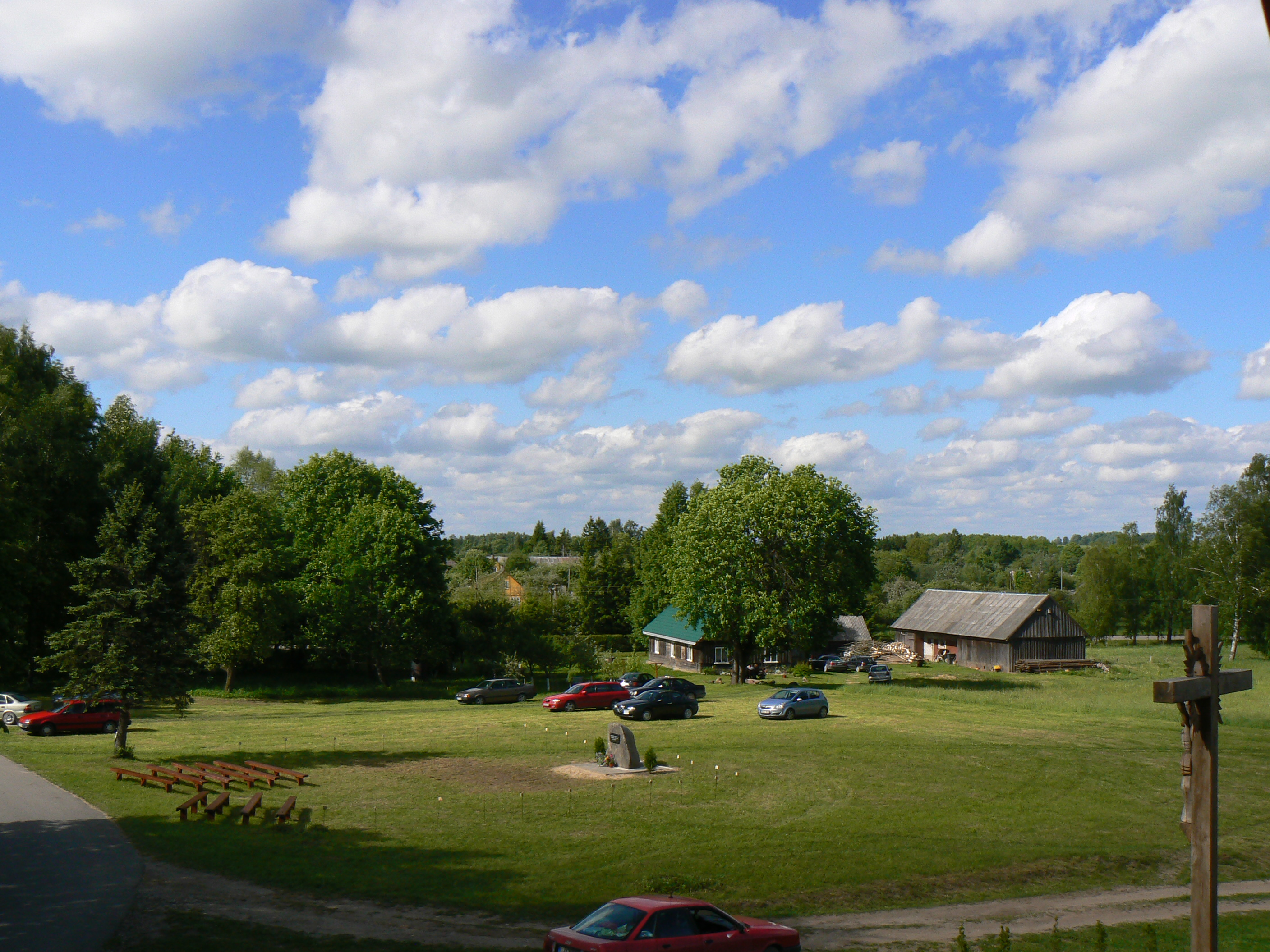 View of Varsėdžiai from rectory. Česky: Pohled na Varsėdžiai z fary směrem na sever.